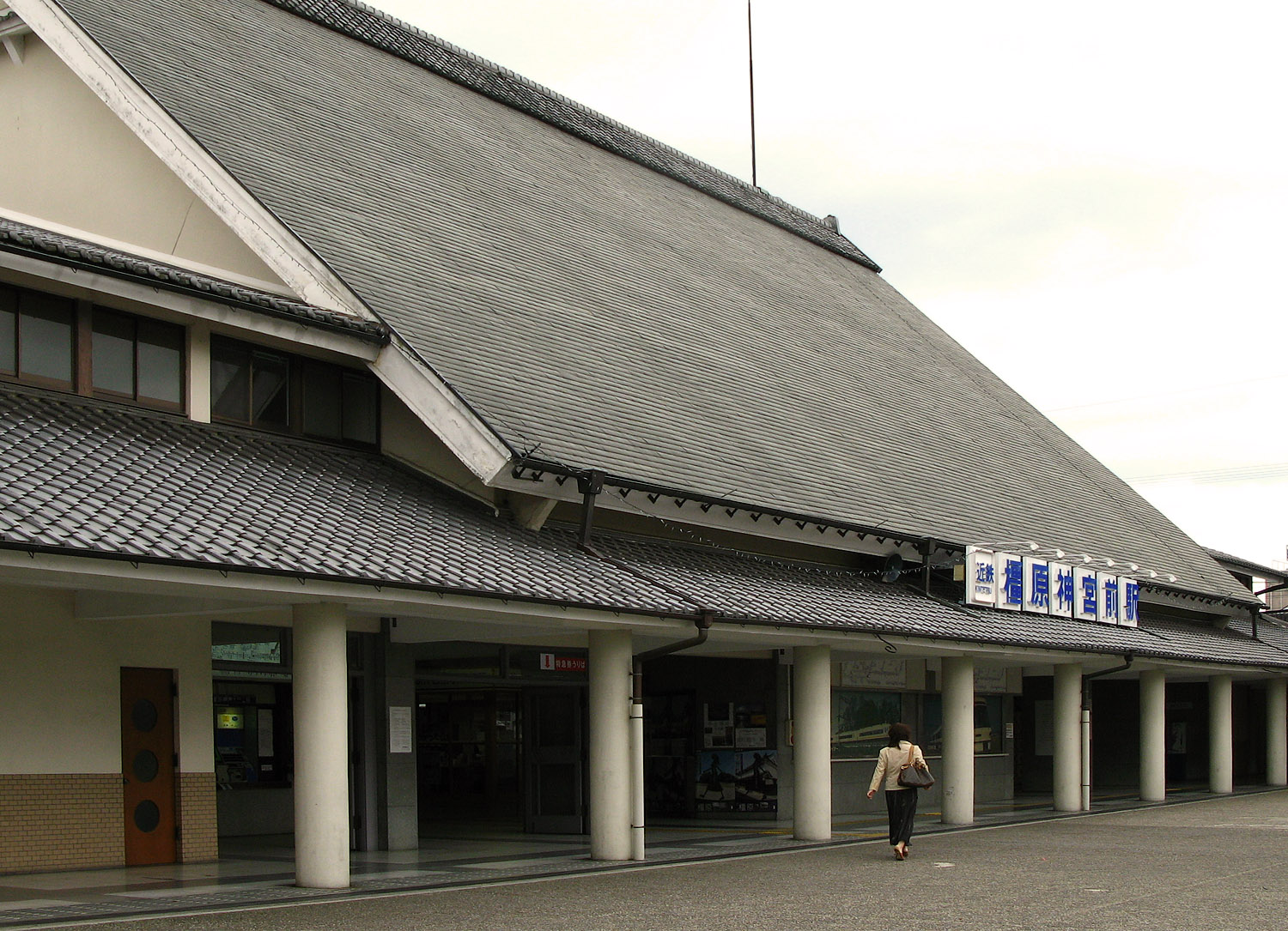 Kintetsu Kashiharajingū-mae Station in Kashihara, Nara Prefecture, Japan